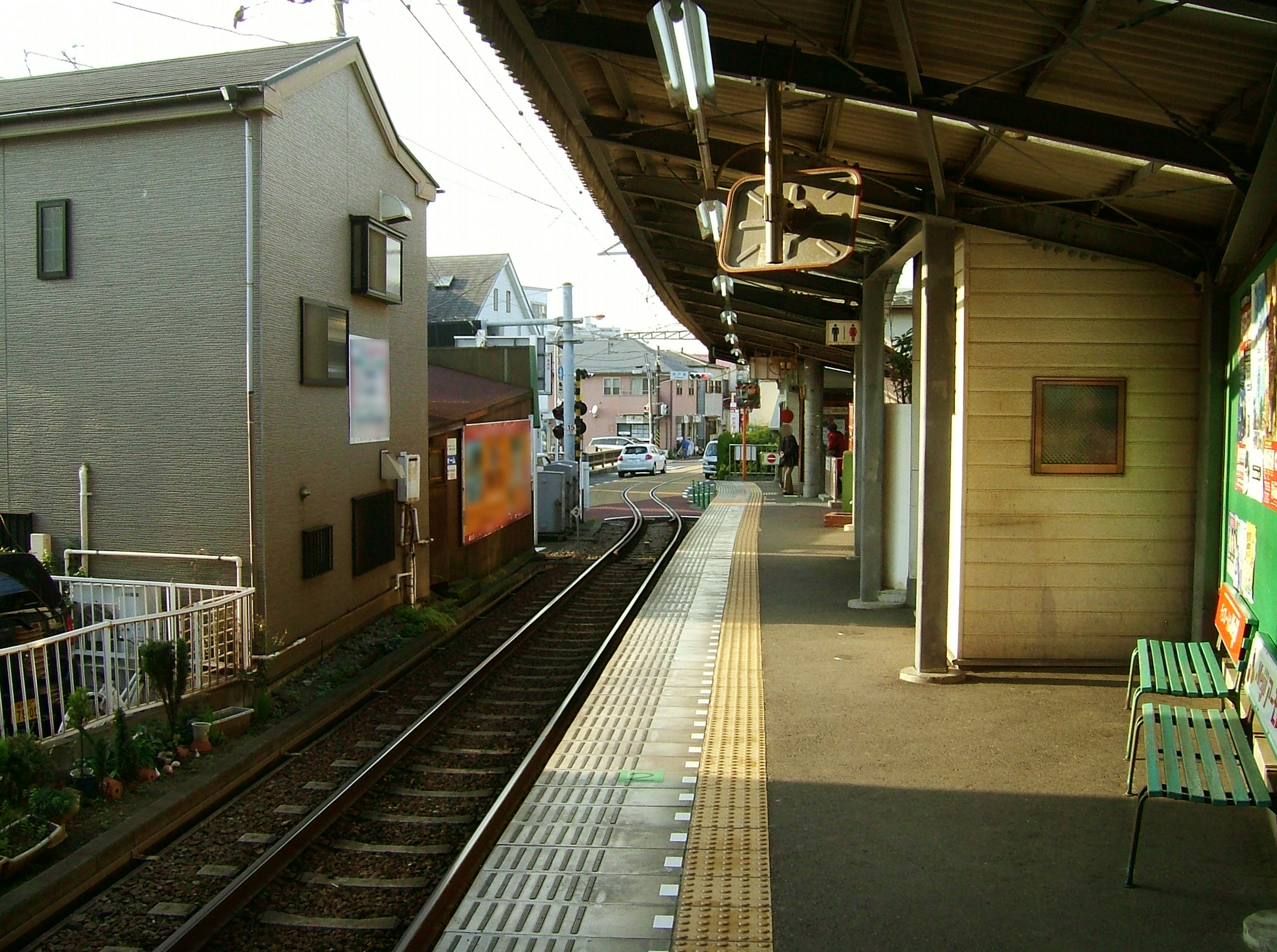 The platform at Koshigoe Station on the Enoden Line in Kamakura city, Kanagawa prefecture, Japan